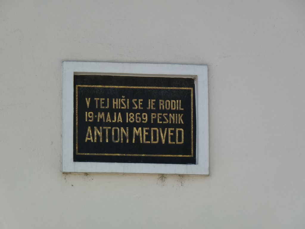 Anton Medved here-was-born plaque